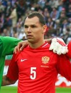 Sergei Ignashevich before home match against FYR Macedonia